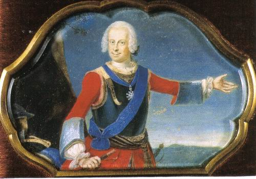 Portrait of Louis VIII, Landgrave of Hesse-Darmstadt (1691-1768)